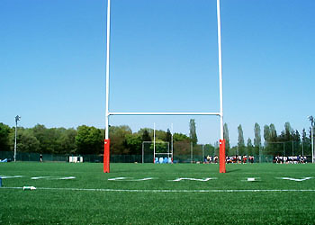 A rugby field in Kumagaya Campus, Rissho University.